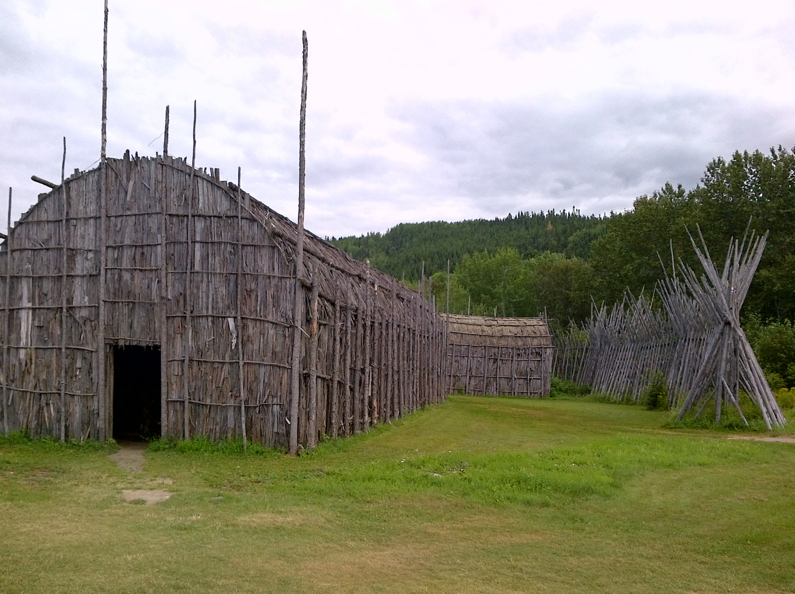 By Google translation: Reconstruction of a Huron long house for the film "Black Dress"; Set in the era of New France at the site: (48.278960,-70.627144) Saint-Félix-d'Otis, Quebec, Canada.• This long house would be typical technology and lifestyle for the various tribes of the Iroquoian peoples from the Cherokee and Tuscarora of the American Southeast through the tribes up along the Appalachian Mountain chain past the Susquehannocks and Iroquois Confederation to the tribes living near the Great Lakes Erie and Ontario such as the Erie people, Neutral people, Tabacco people and Huron people.• Before European diseases and pressures from settlers totally changed Indian societies, the primal virgin forests of North America provided vast stands of large boled birch trees the river dwelling and traveling Iroquoian cultures used to make Birchbark Canoes and sheaths of such long houses. Birch and resin glues were a primary technology, so served as siding, shingles and canoe sides. • According to the American Heritage Book of Indians (1961), several families would have occupied each residence.